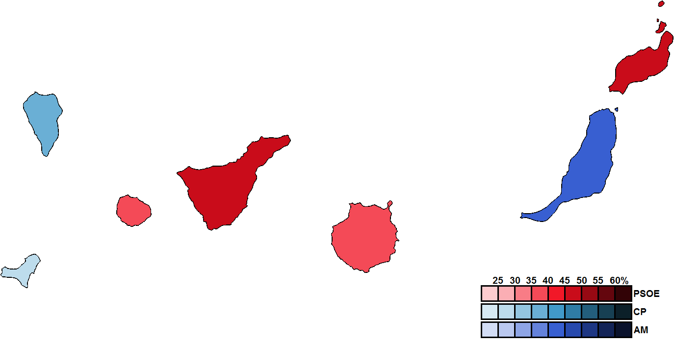 District results for the 1983 Canarian regional election.